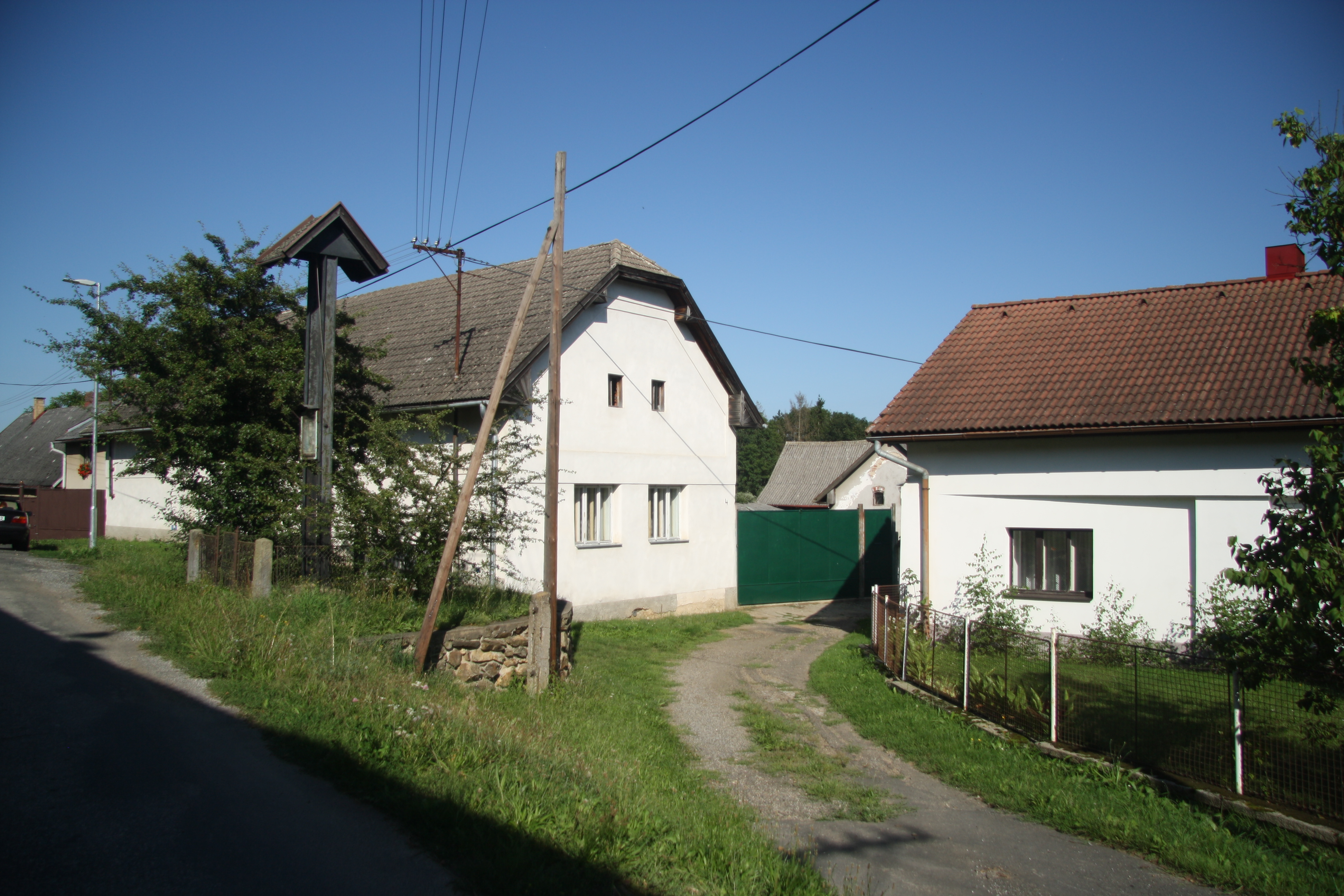 Center with bell tower in Veselice, Havlíčkův Brod, Havlíčkův Brod District.